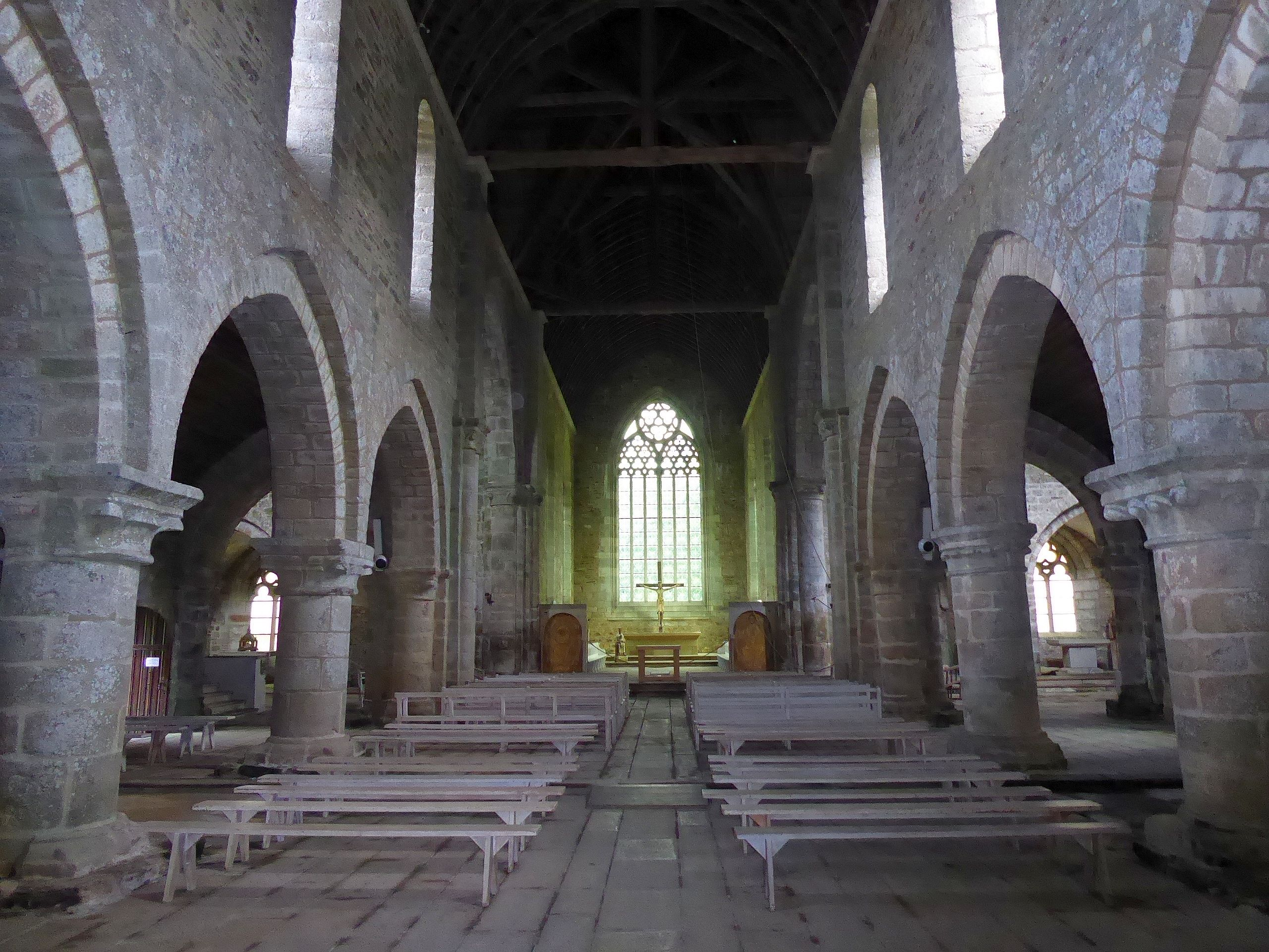 Interior of Abbey Church, Abbaye de Boquen